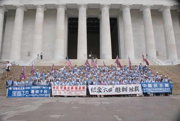 China Democracy Party 中国民主党